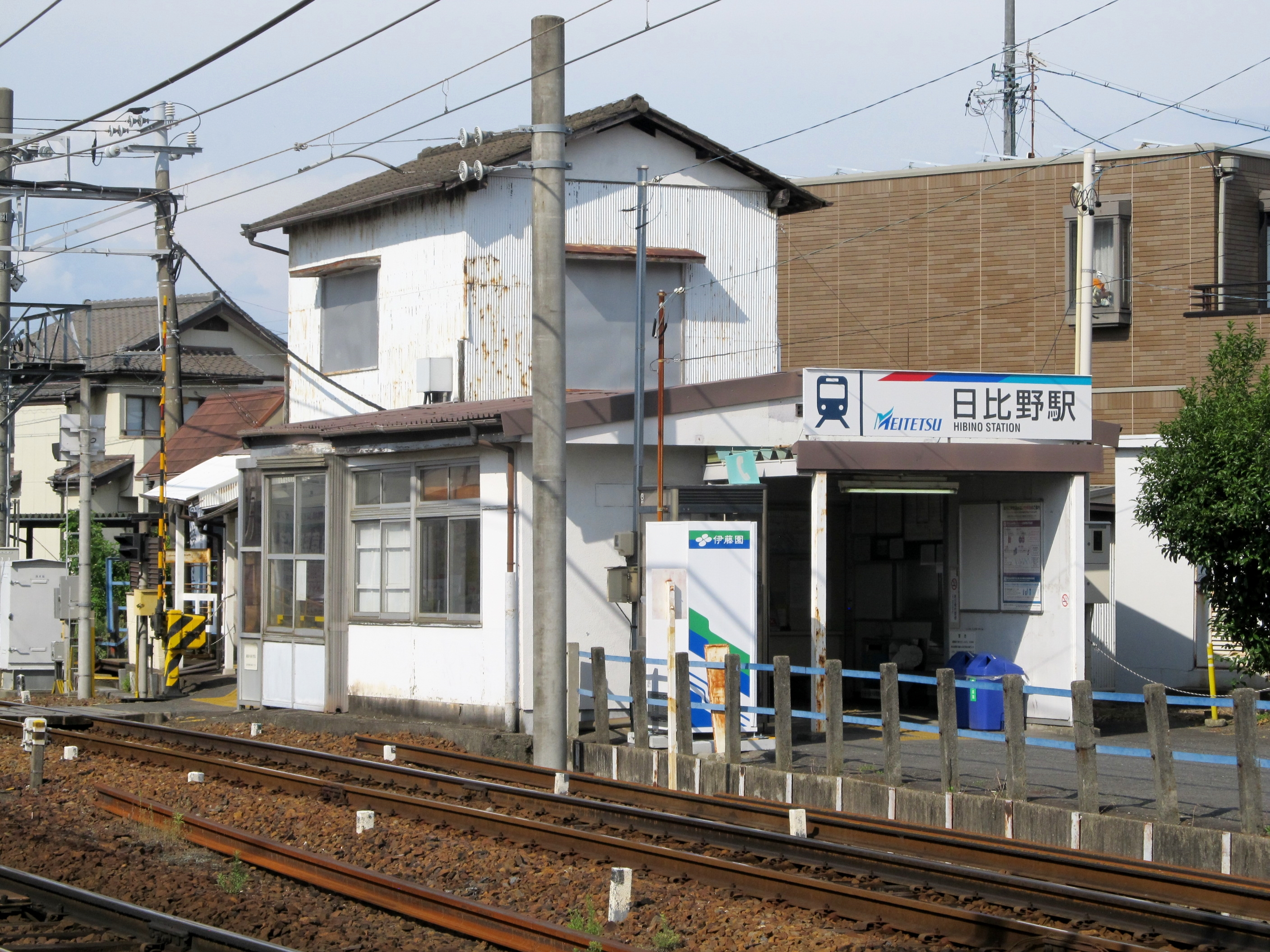 Nagoya Railroad Bisai Line Hibino Station Building